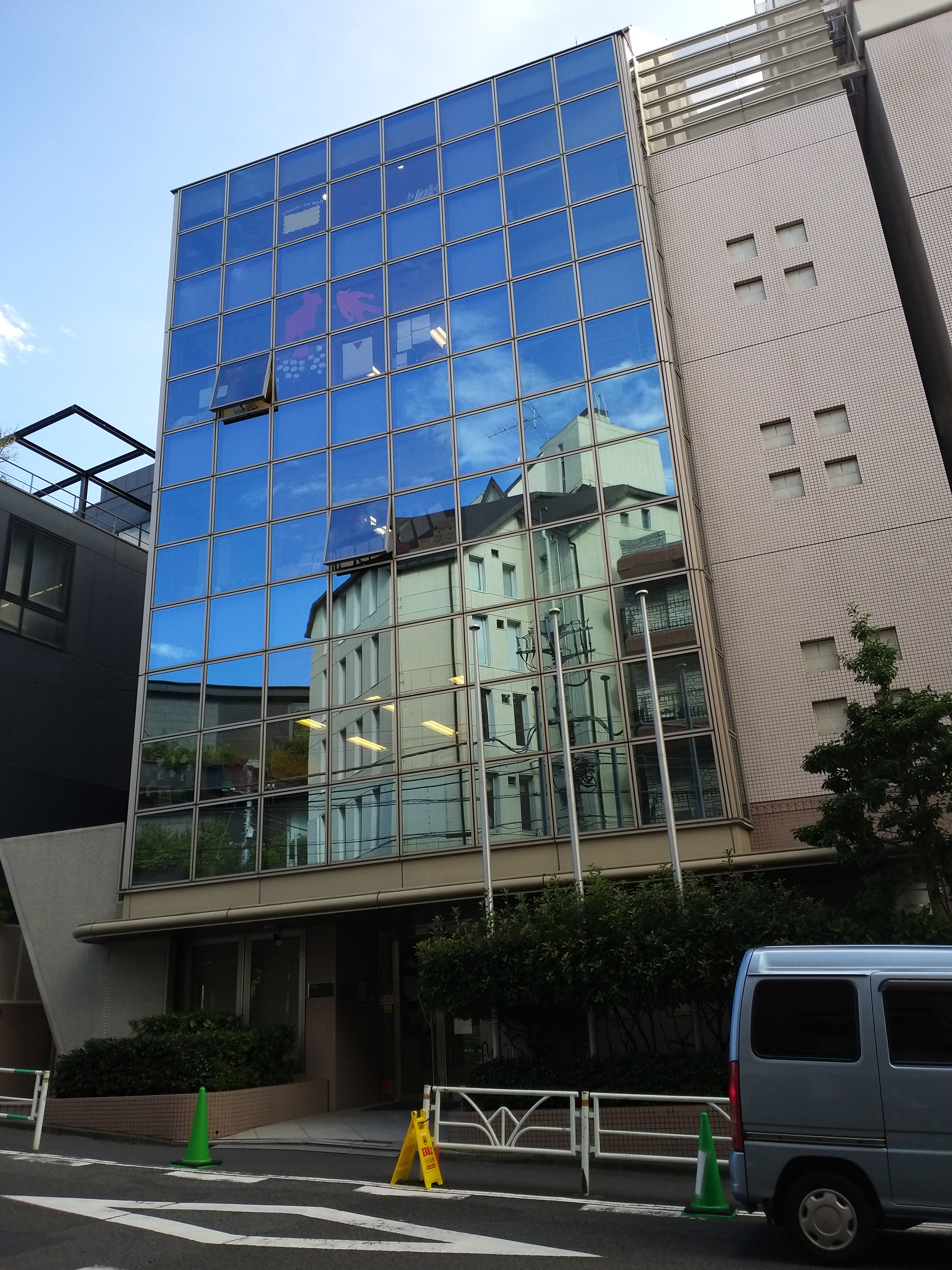 British School of Tokyo Shibuya Campus